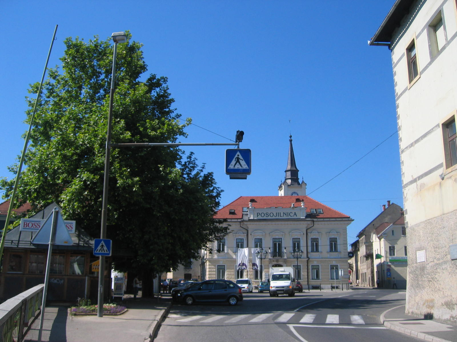 Črnomelj, small city in southern Slovenia (Bela krajina region) photo:Ziga 06:01, 20 July 2006 (UTC)